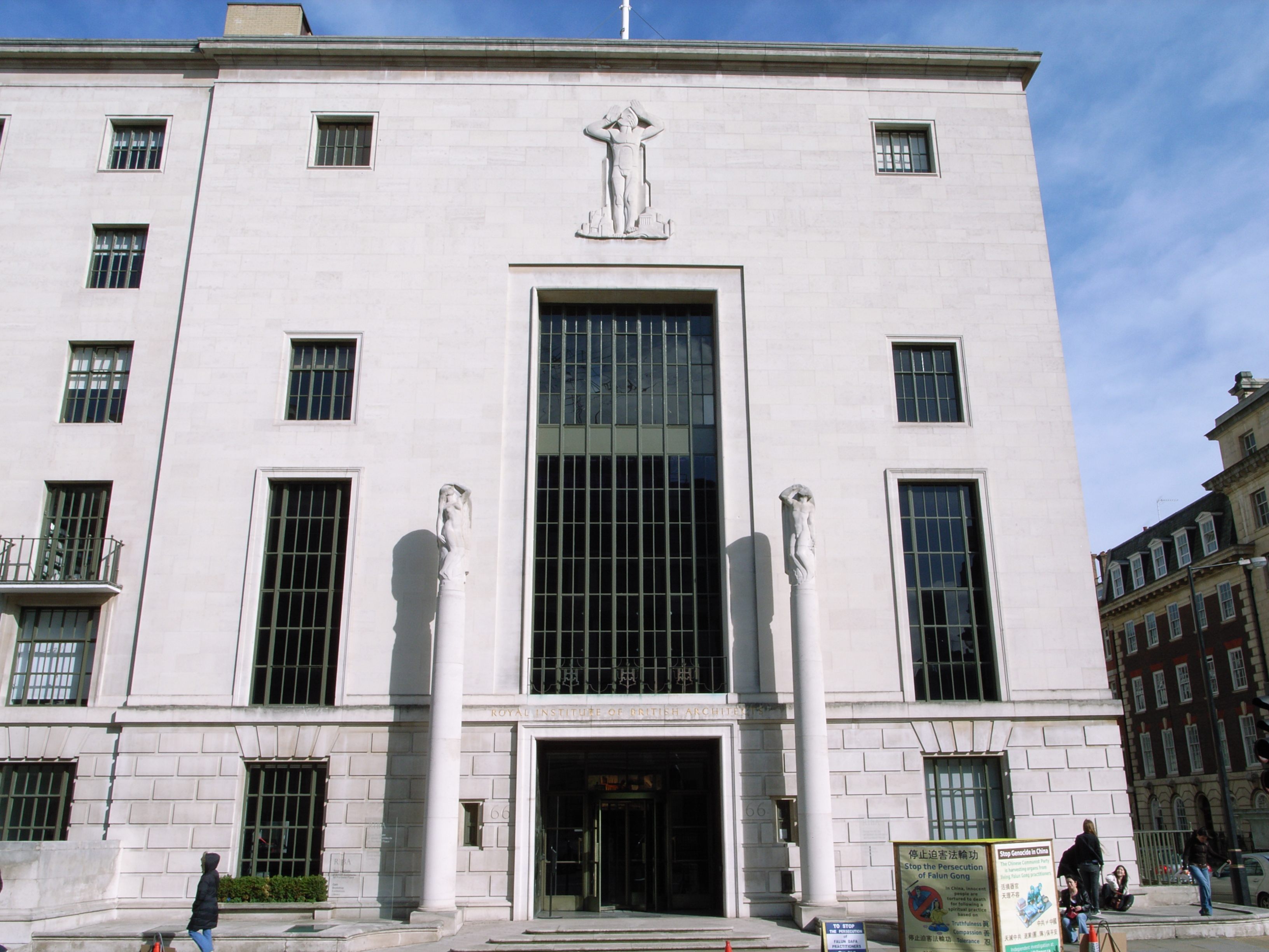 Credit:Image credited to Steve Cadman Description:en:Royal Institute of British Architects building (1932-4), Portland Place, London, by Grey Wornum. There's a very good architectural bookshop on the ground floor and cafe upstairs.